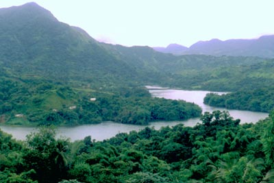 Lomas de Lachay